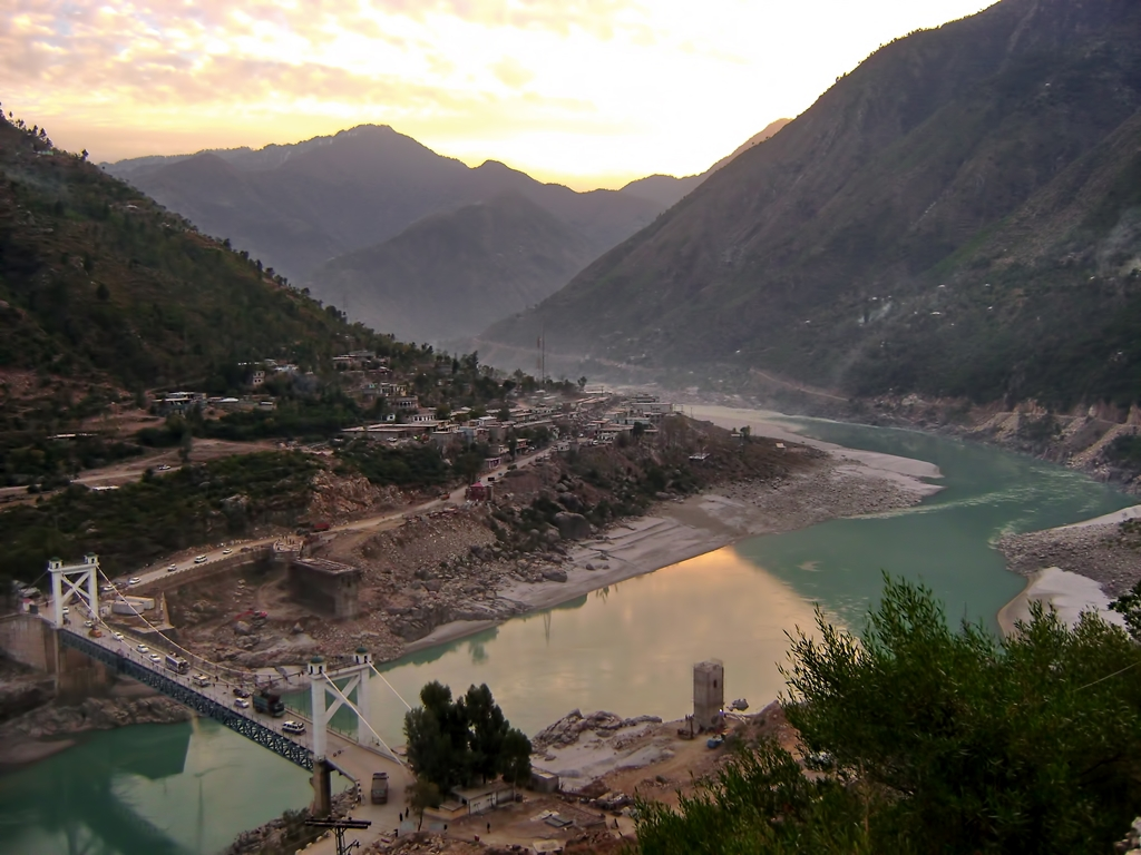 Indus running through mountains of Kohistan in Pakistan; forming one of the oldest valleys.